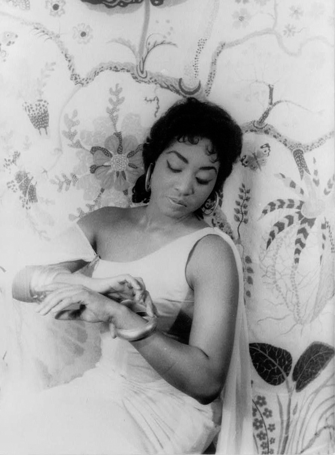 Portrait of Gloria Davy, as Aida.